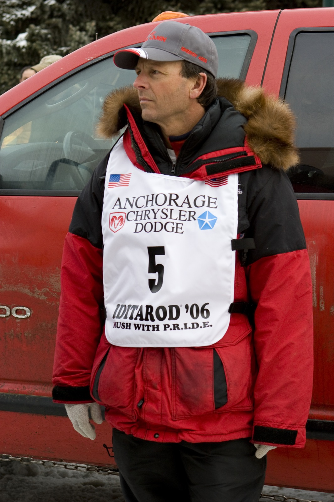 Iditarod 2006 official start in Anchorage. Musher Doug Swingley 2006 Iditarod